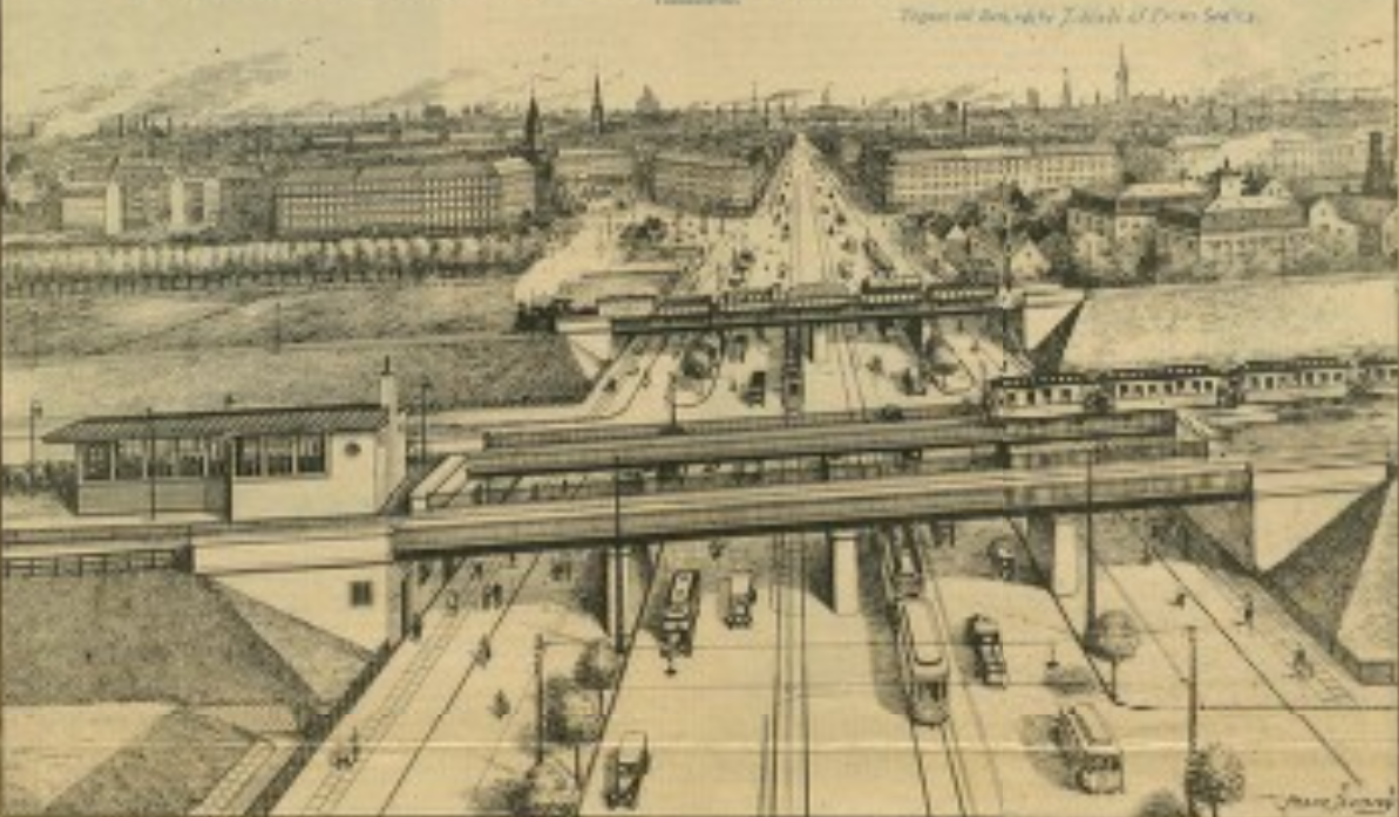 Set fra viadukten ved Lyngbyvejens Station mod byen, 1931.06.07